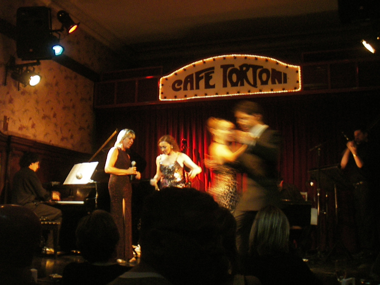 It takes two for a tango. Cafe Tortoni. Buenos Aires